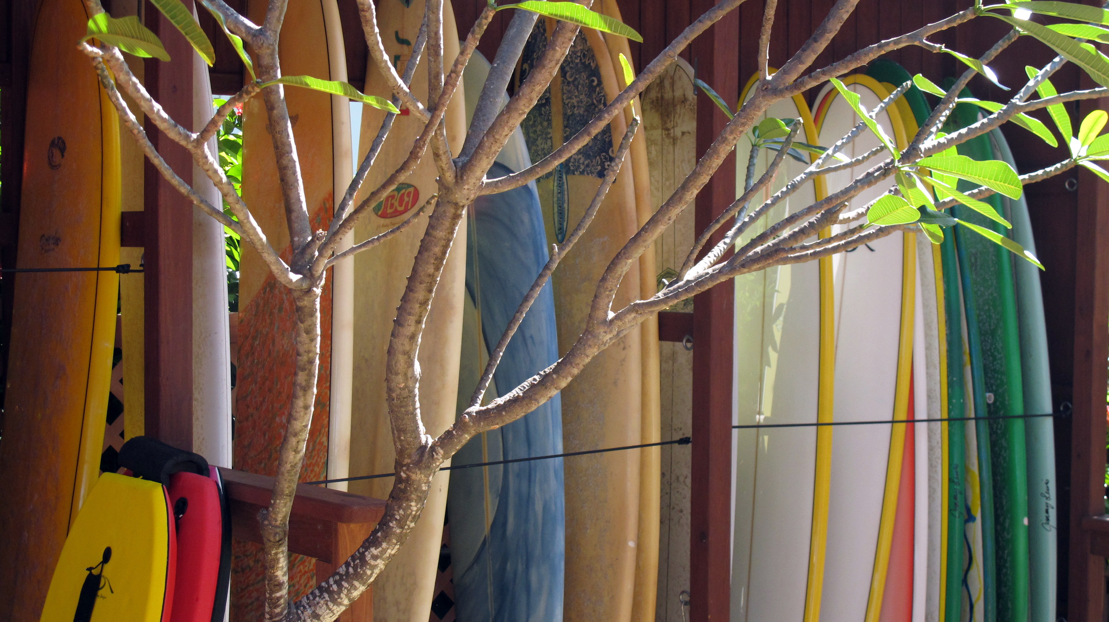 Mar Azul Surf Shop, Rincón, Puerto Rico